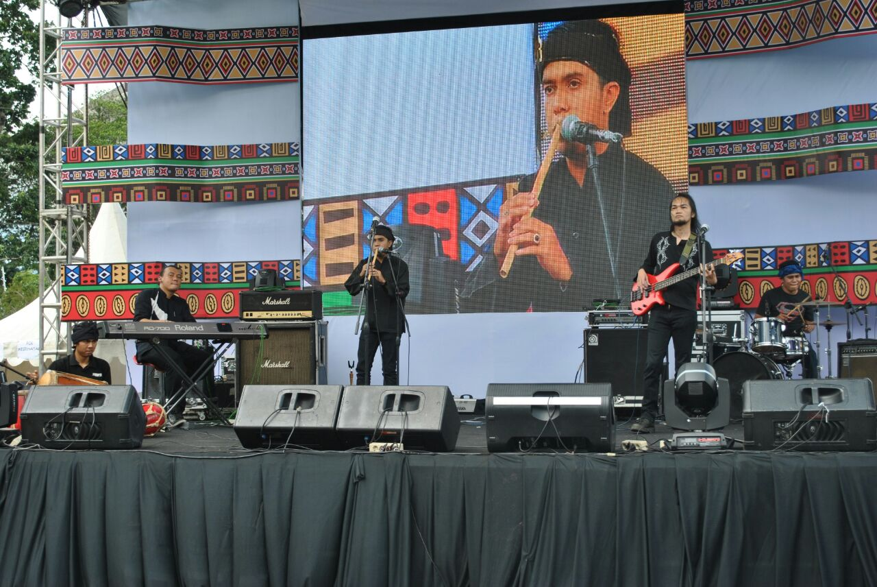 West Java Syndicate playing at Asian African Meet & Greet, part of Asian African Carnival 2015 in 60th Commemoration of Asian African Conference